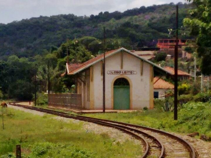 View of the old train station of the Lobo Leite district, in Congonhas, Minas Gerais, Brazil.